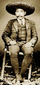 Manuel Palafox (1886 – 1959) was a Mexican politician, soldier and intellectual.